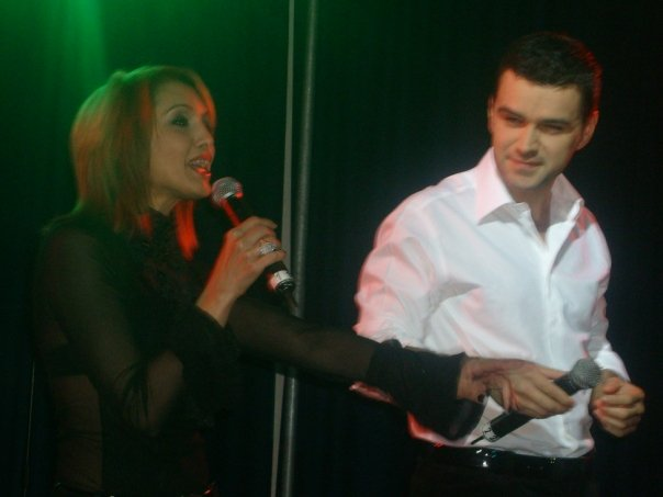 Nicoleta Matei, known by her stage name Nico and Vlad Miriţă, photo taken at Scala nightclub, London.